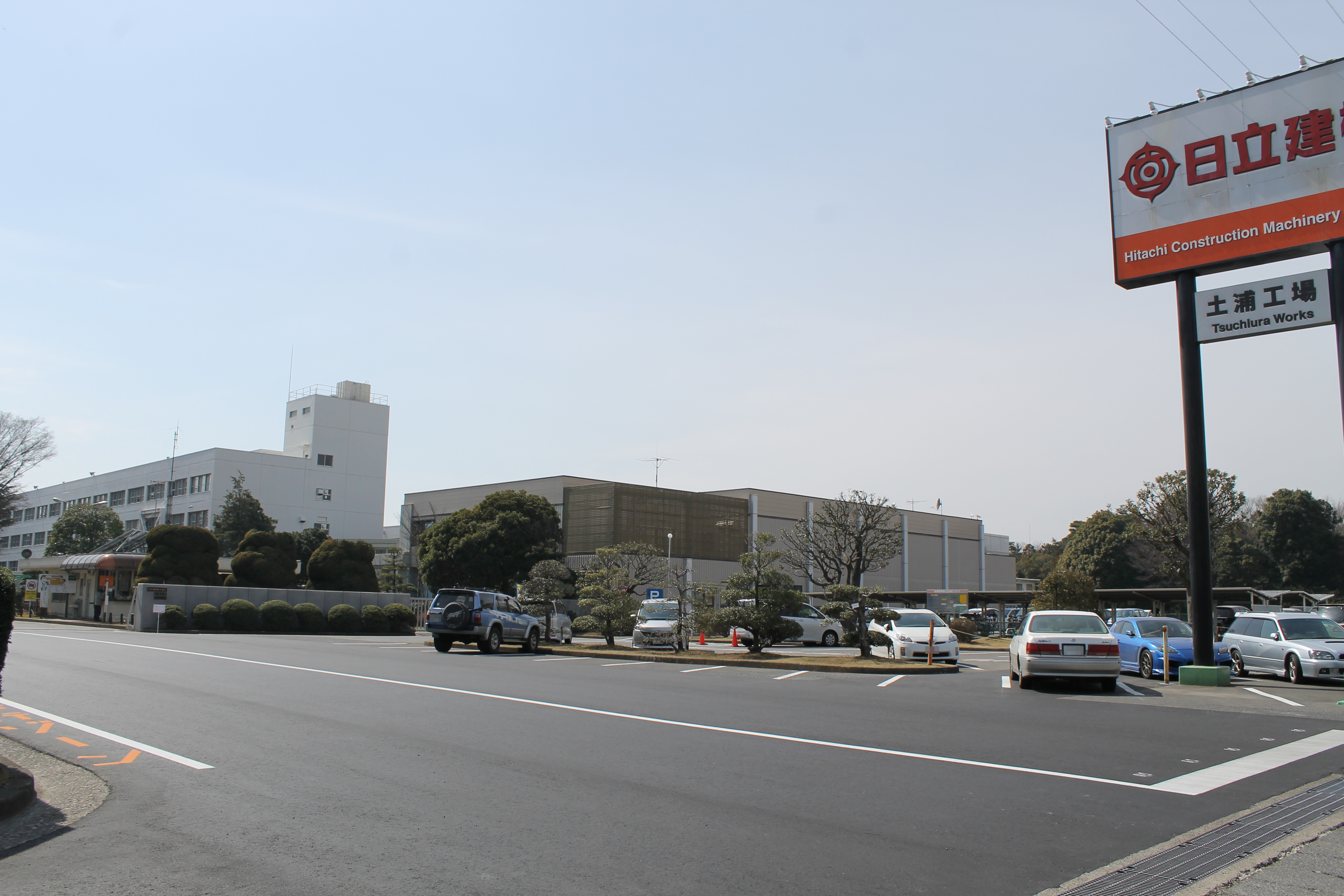 Hitachi Construction Machinery Tsuchiura Factory